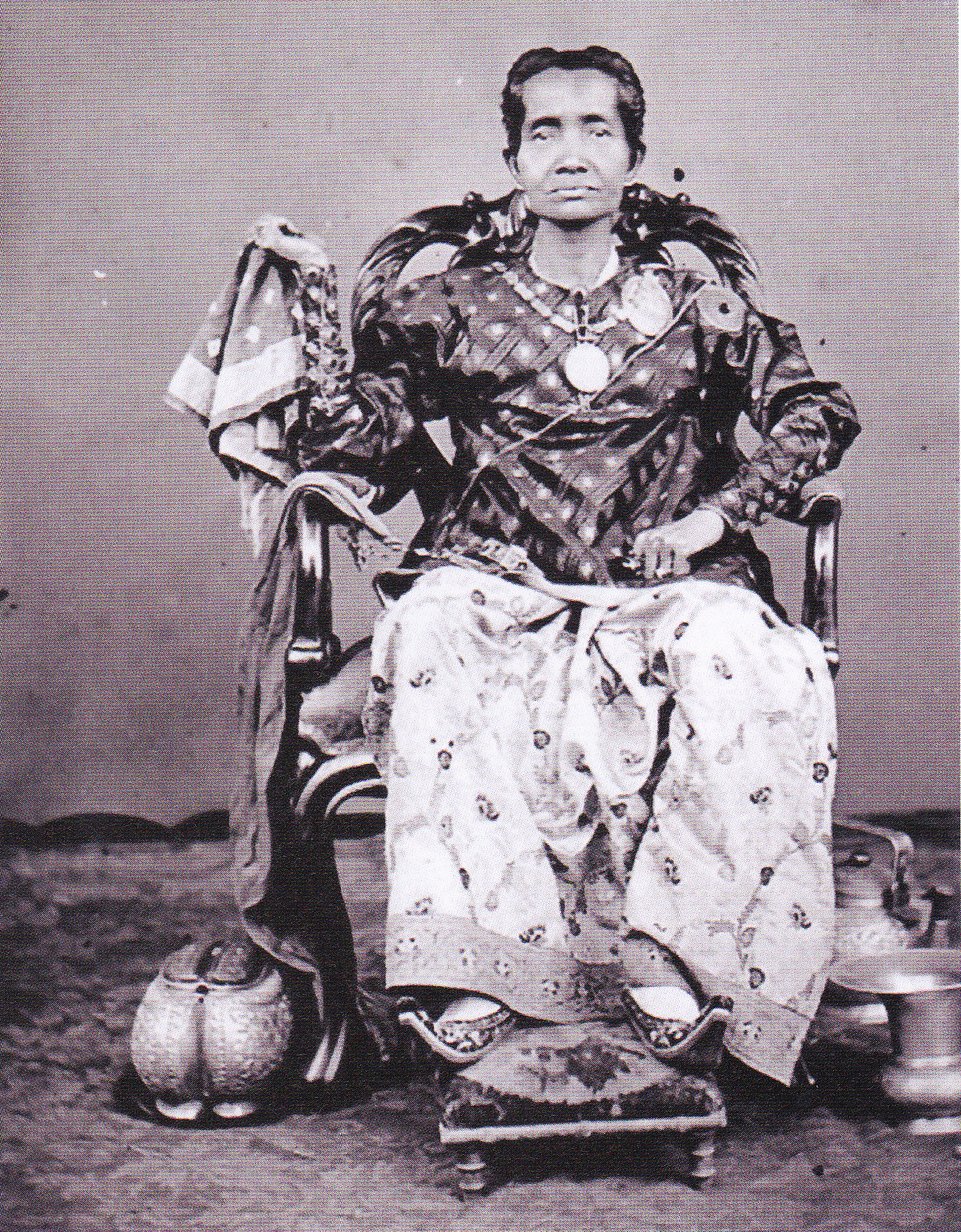 Wé Tenriollé, Queen of Tanété 1855-1910